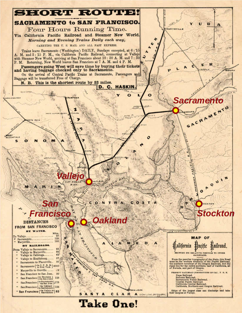 Map of California Pacific Railroad, Showing Its Relative Position To Other Railroads (highlighted are cities on route to the Bay Area)